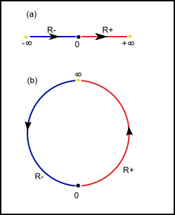 Extended Real Numbers: a) Affinely Extended Real Numbers and b) Projectively Extended Real Numbers